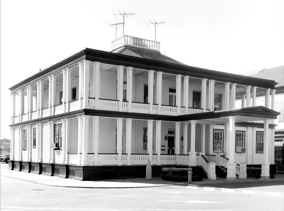 Commandant's Office, aka Building One, in the Washington Navy Yard. Listed on the NRHP on August 14, 1973. At Montgomery Sq. and Dahlgren Ave., SE., Washington, DC